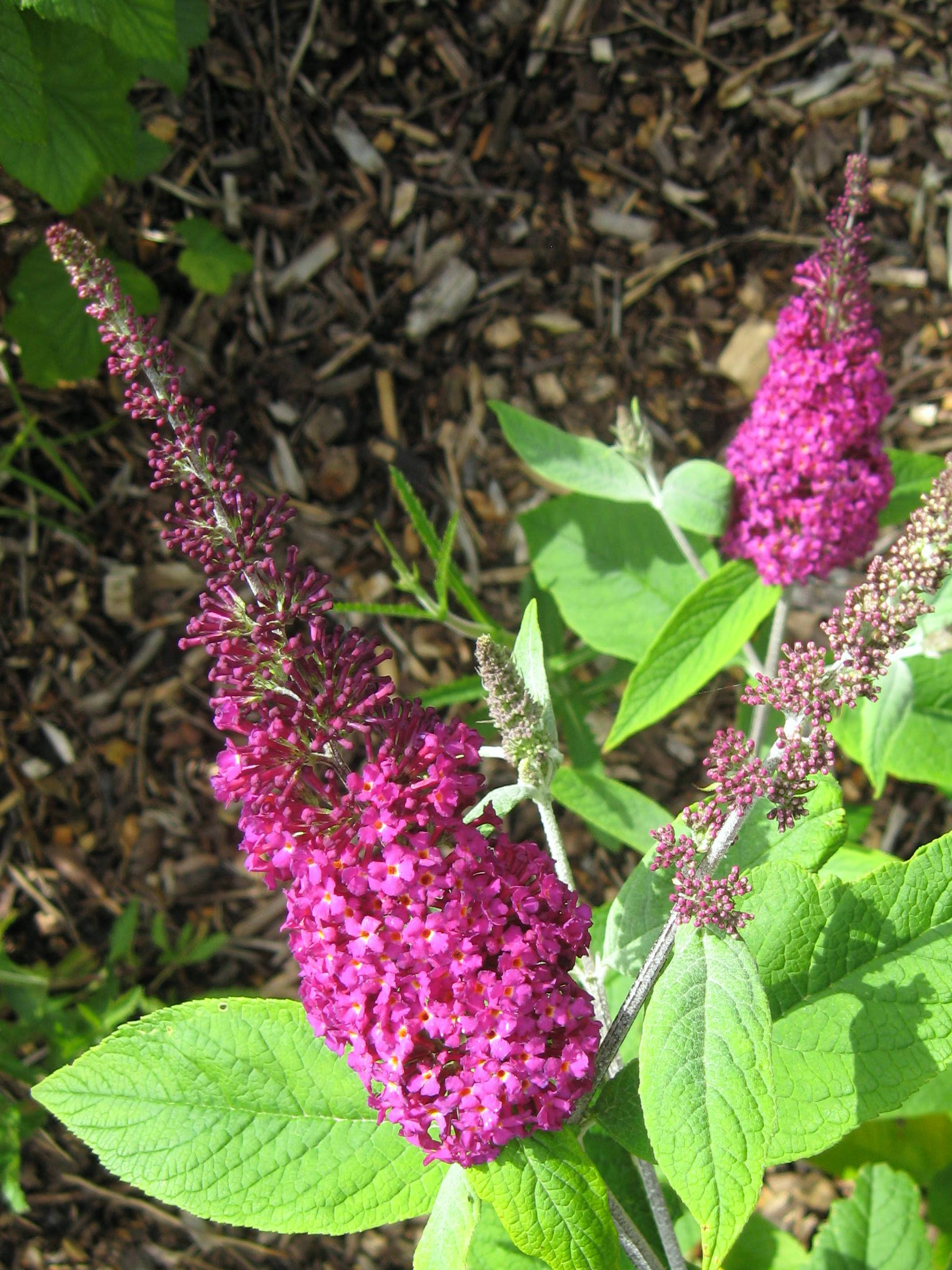 Photo of Buddleja cultivar 'Miss Ruby' panicles